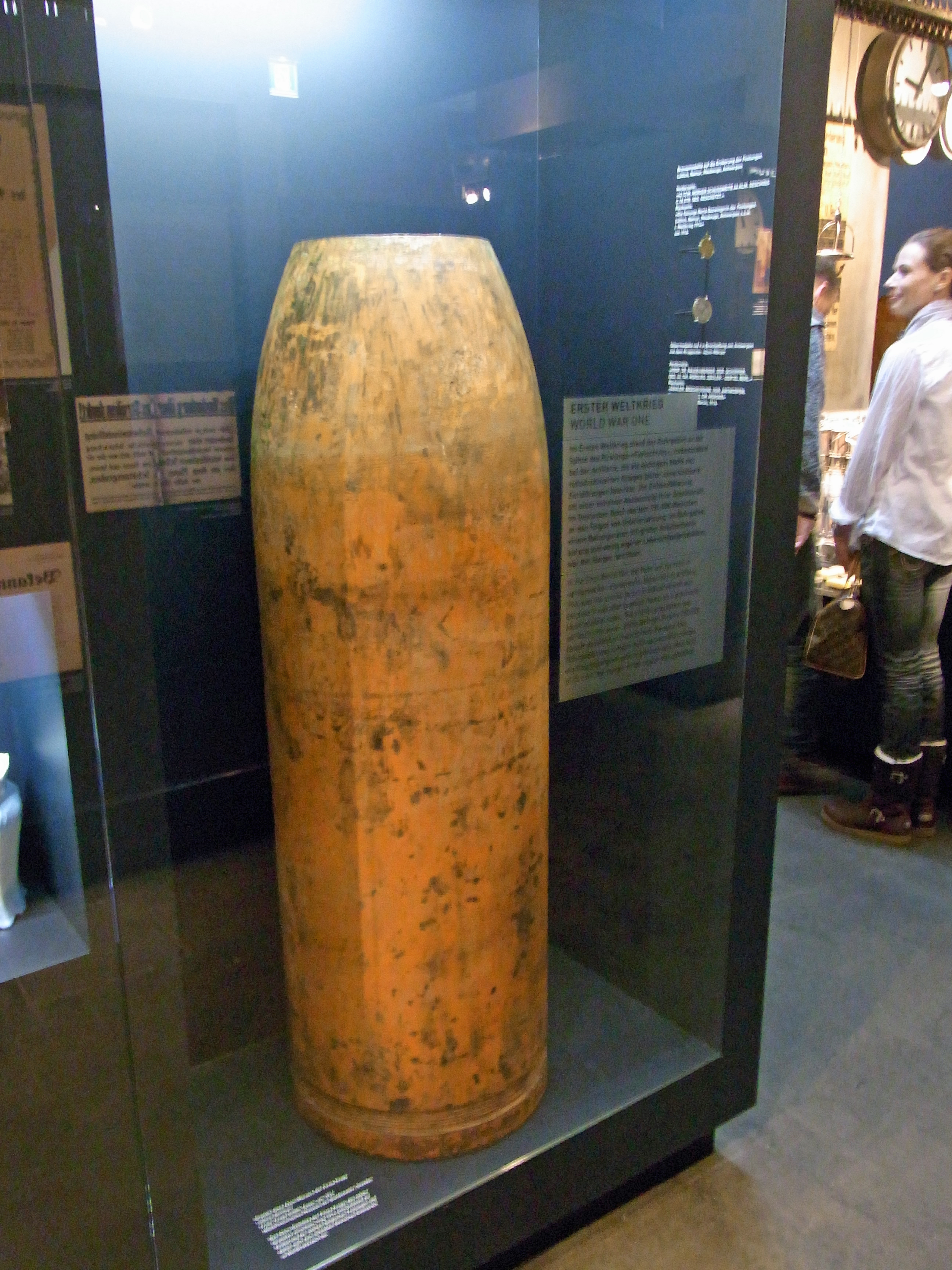 Shell for the Big Bertha